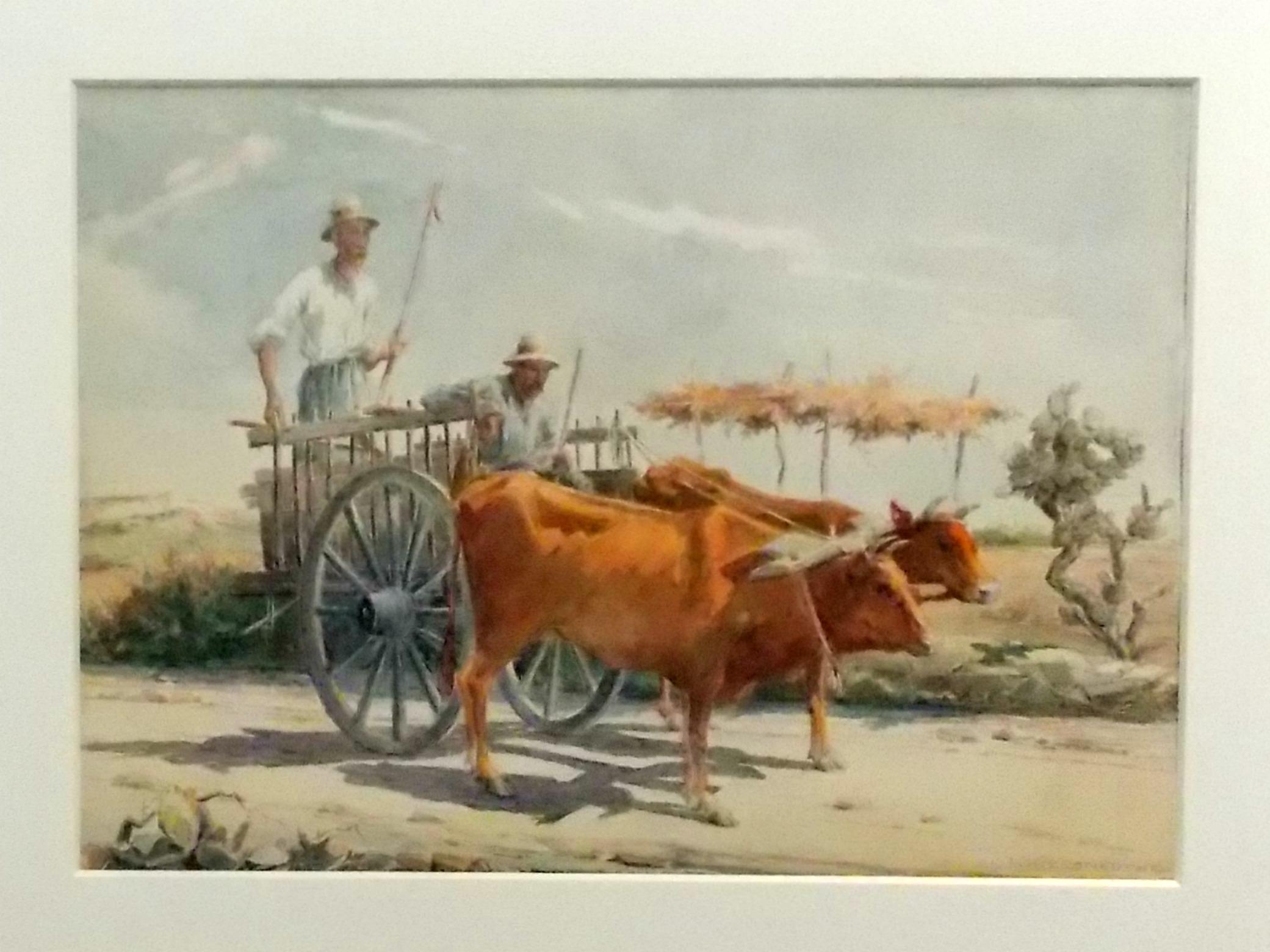 Ioannis Kissonerghis - Peasants in an Ox-drawn Cart (watercolour on paper)